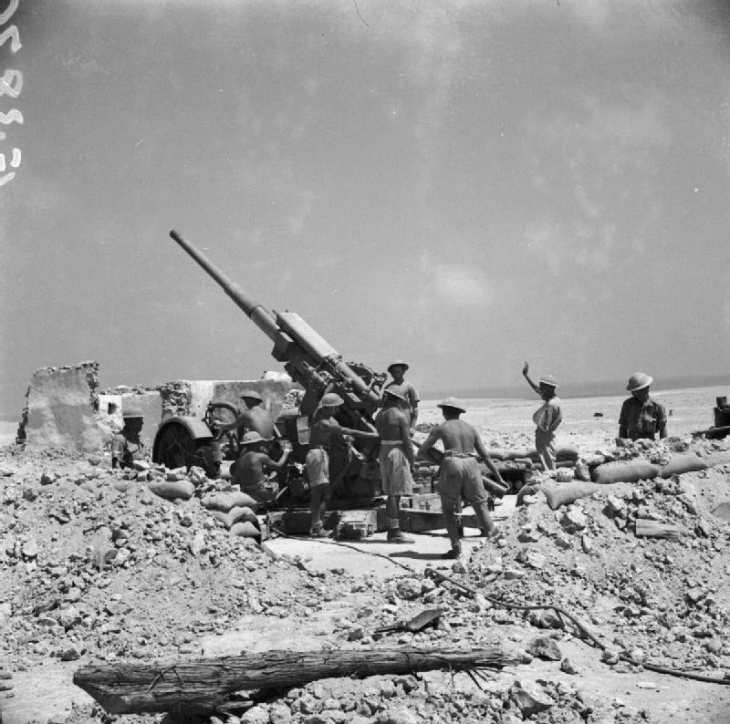 The British Army in North Africa 1941 A 3.7-inch anti-aircraft gun in the Western Desert, 27 June 1941.